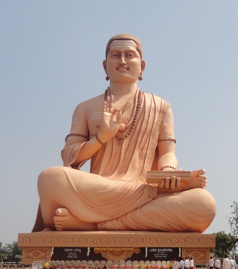 This is the worlds tallest Basava statue (108 feet) located in Basava Kalyana, Karnataka India. Inaugurated on 28th October 2012.